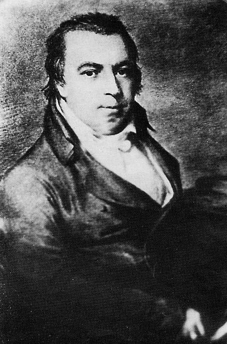 An engraving of the German-born astronomer Ernst Friedrich Knorre.